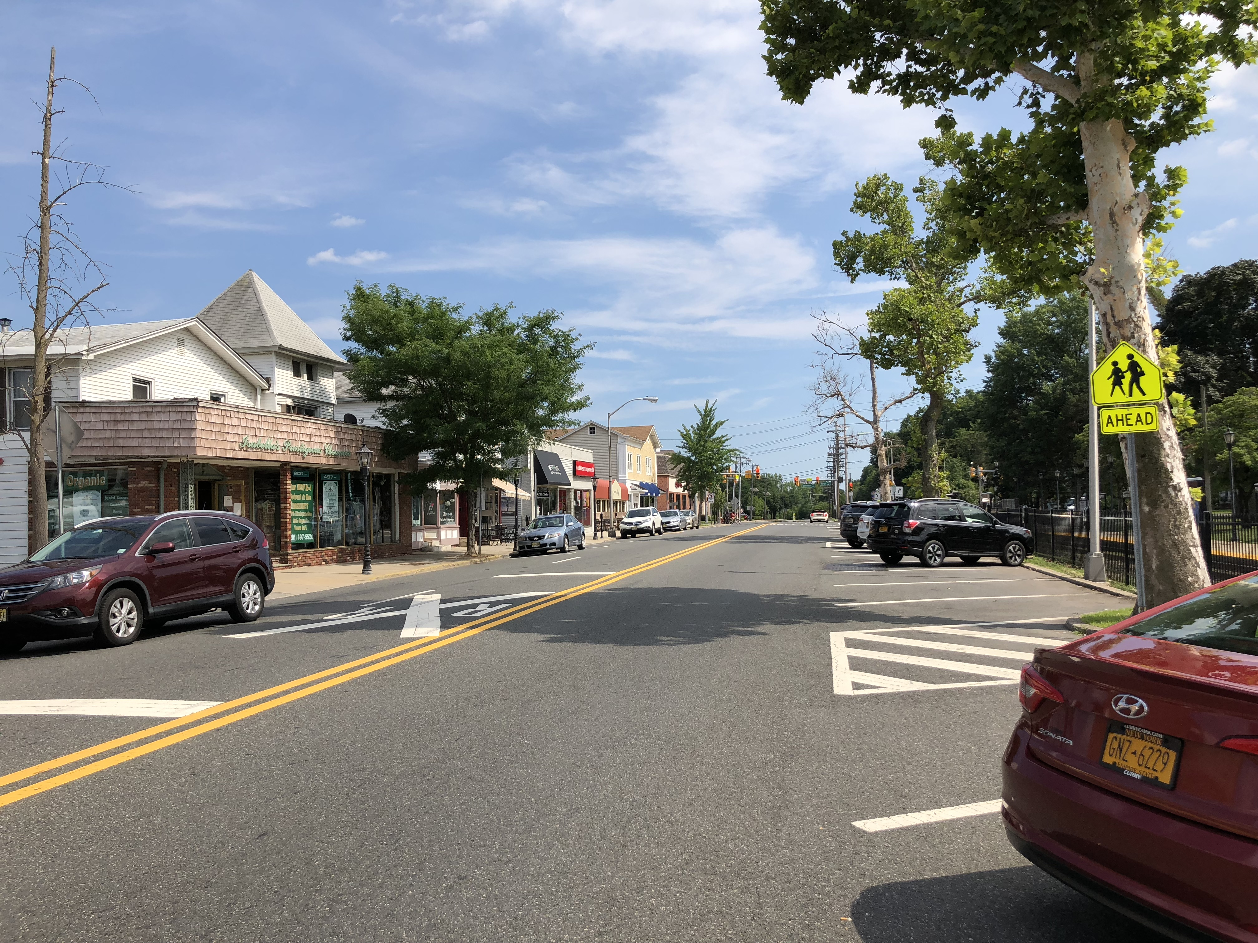 View east along Bergen County Route 502 (Broadway) just east of Westwood Avenue and Washington Avenue in Westwood, Bergen County, New Jersey